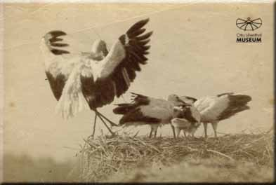 "Storks", Ottomar Anschütz, 1884, series, OLM F 0834 LN and others, format: albumen paper, 95 * 140 mm